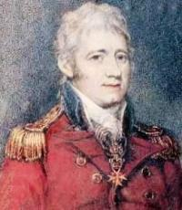 Sir Home Riggs Popham